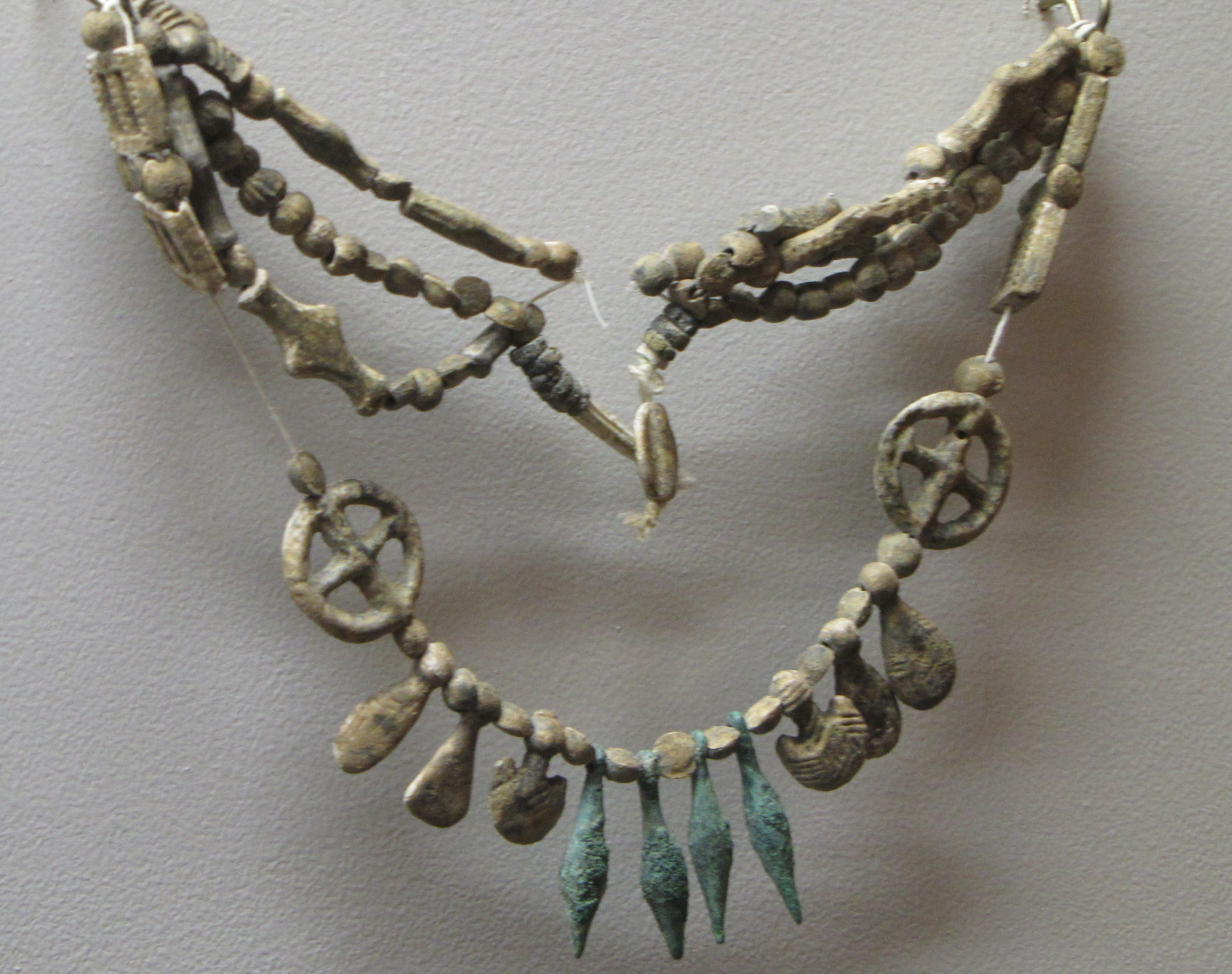 Bronze and antimony beads circa 1000 BCE